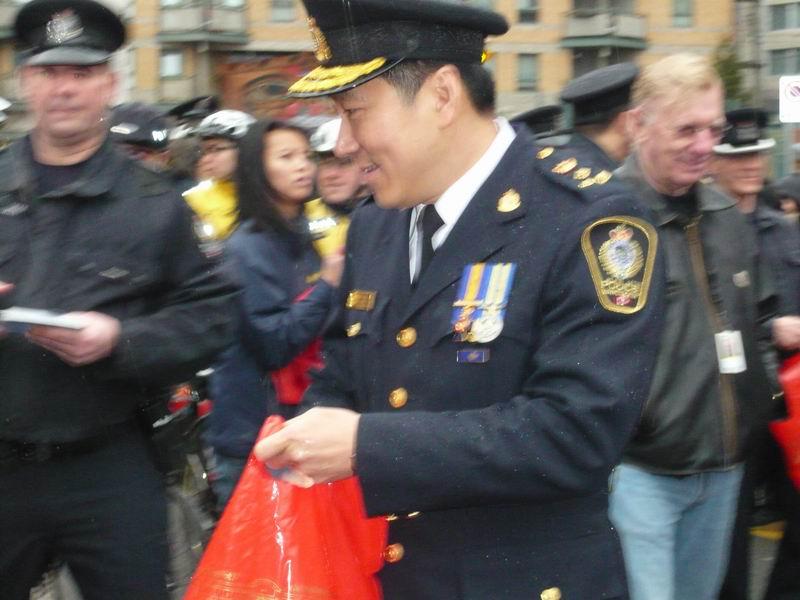 Jim Chu4